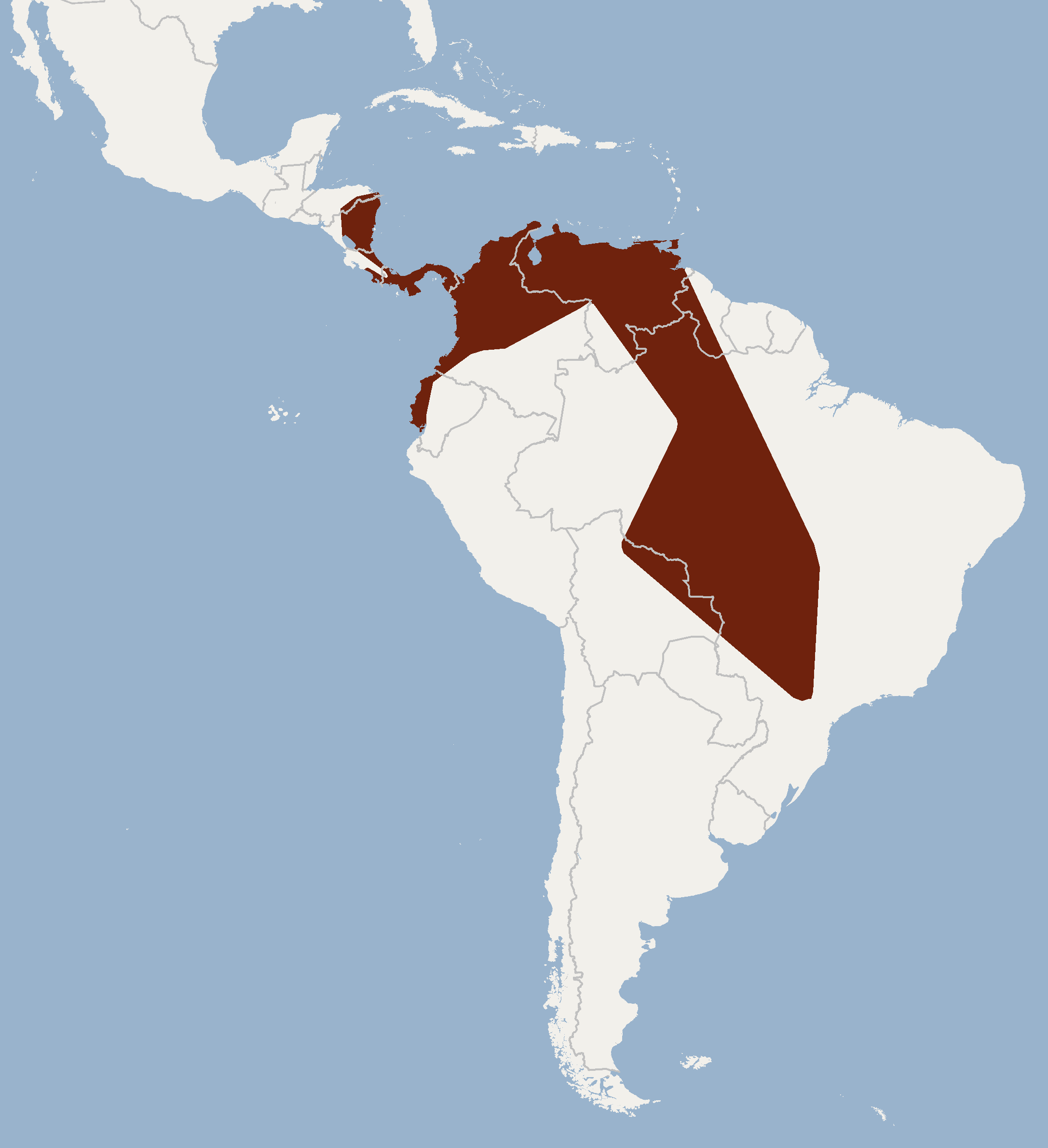 Geographical distribution of Rhogeessa io according to Gardner, 2008 and Reid, 2009